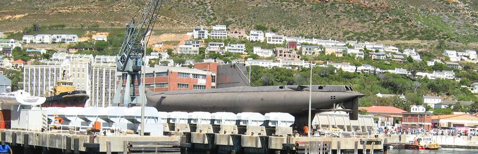 The SAS Assegaai (S99), formerly named the SAS Johanna van der Merwe, is a French-built Daphné class diesel-electric patrol submarine of the South African Navy, which after decommission was turned into a museum submarine in Simon`s Town, South Africa.